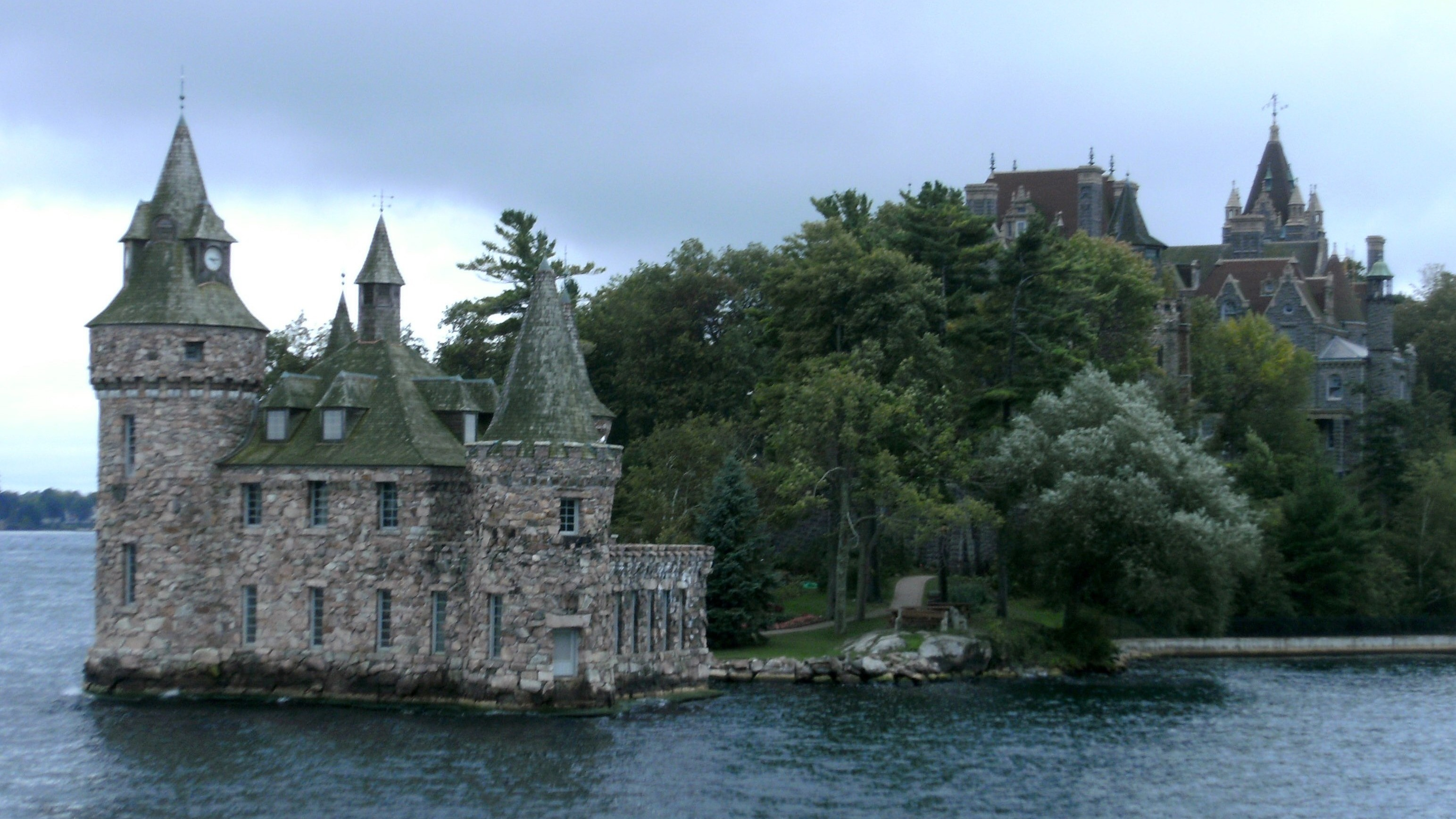 Castle Boldt, built on one of the "Thousand Islands" in the mouth of Saint-Lawrenceriver, near Kingston, ON ,Canada